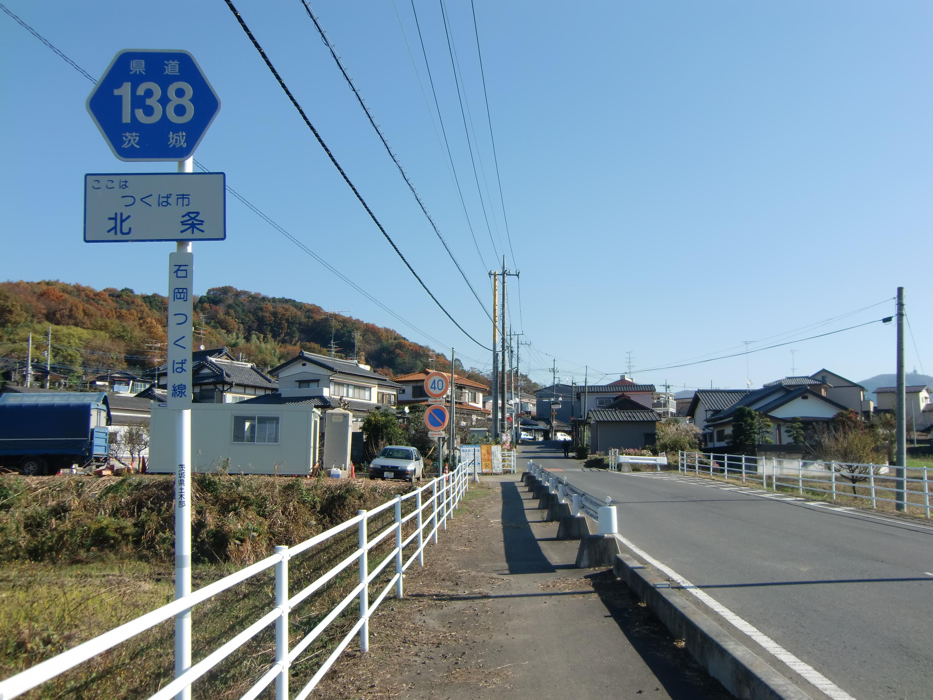 Ibaraki prefectural road 138 (Ishioka-Tsukuba line) in Hōjō, Tsukuba city, Ibaraki prefecture, JAPAN.